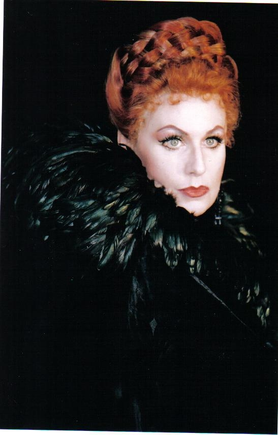 Doris Soffel as Ortrud